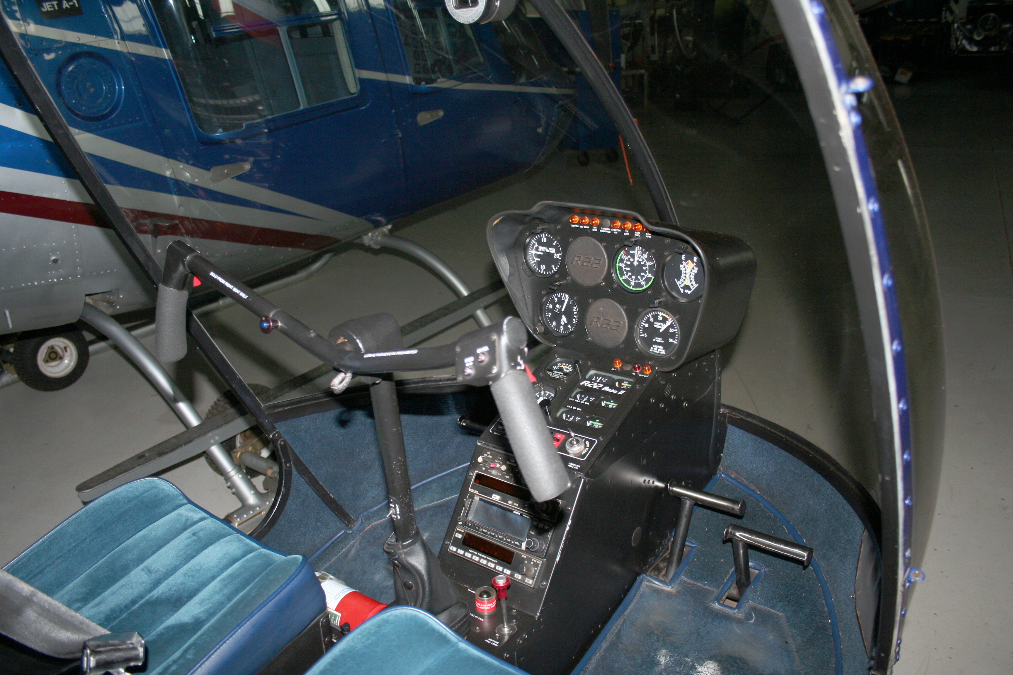 The cockpit of a Robinson R22 Helicopter